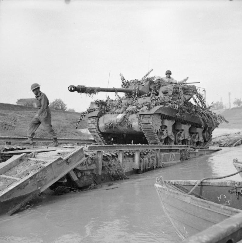 IWM caption : THE BRITISH ARMY IN ITALY 1944. An Achilles 17pdr tank destroyer crossing the River Savio on a Churchill ARK which was driven into the river